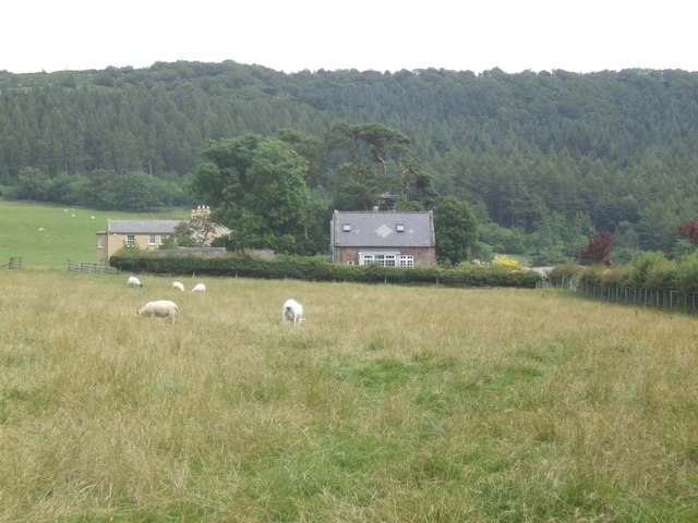 Hepburn A hamlet below the wooded western edge of Hepburn Moor